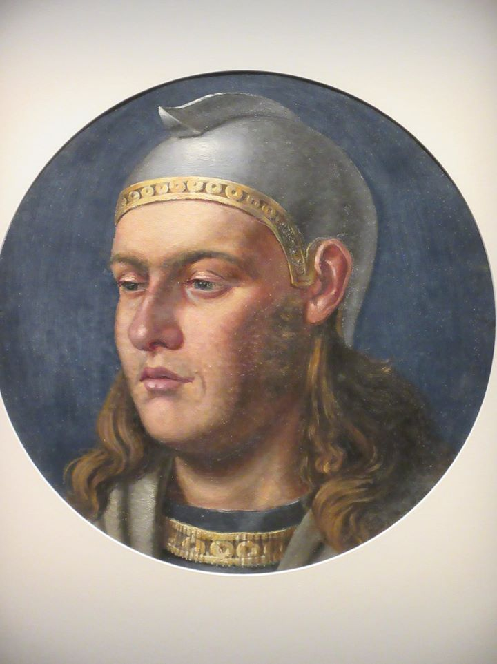 Paiting from the permanent exhibition of the Museum of National History, Frederiksborg in Denmark. It was made for the museum around 1880 by the Danish painter C.N. Overgaard. It depicts the Danish and English king Harthacnut (Hardeknud) who reigned Denmark 1035-1042 and England 1035-37 (southern part of the country) & 1040-1042. Portrait of Danish and English king Hardeknud (Denmark: 1035-1042 - England: 1035-1037 & 1040-1042)